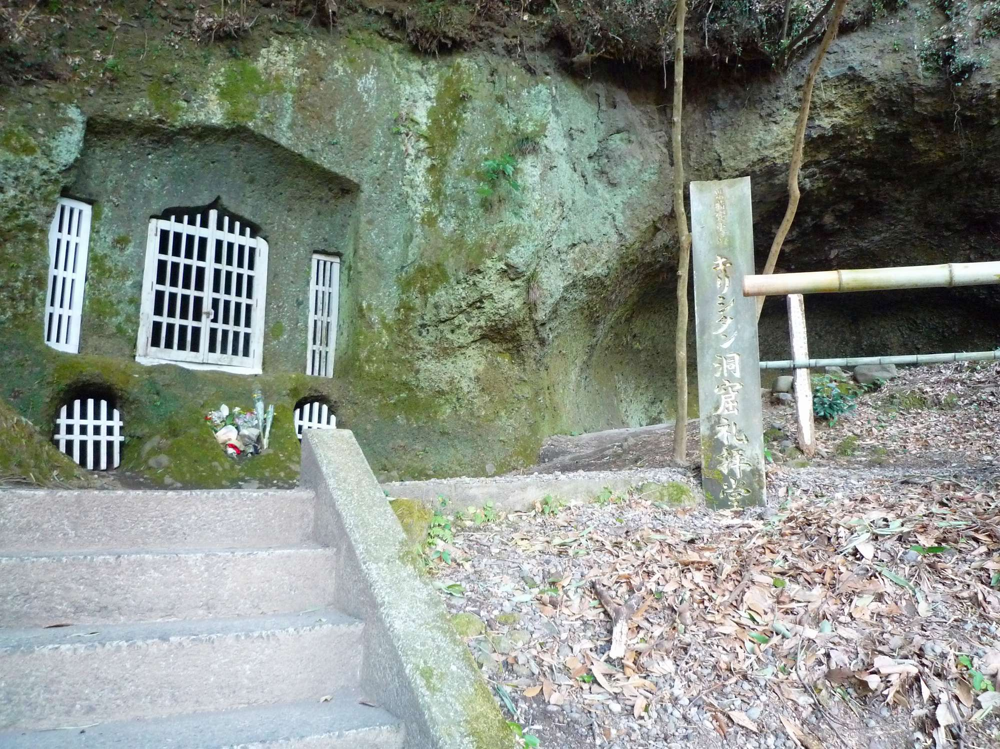 Christian Chapel in the Cave